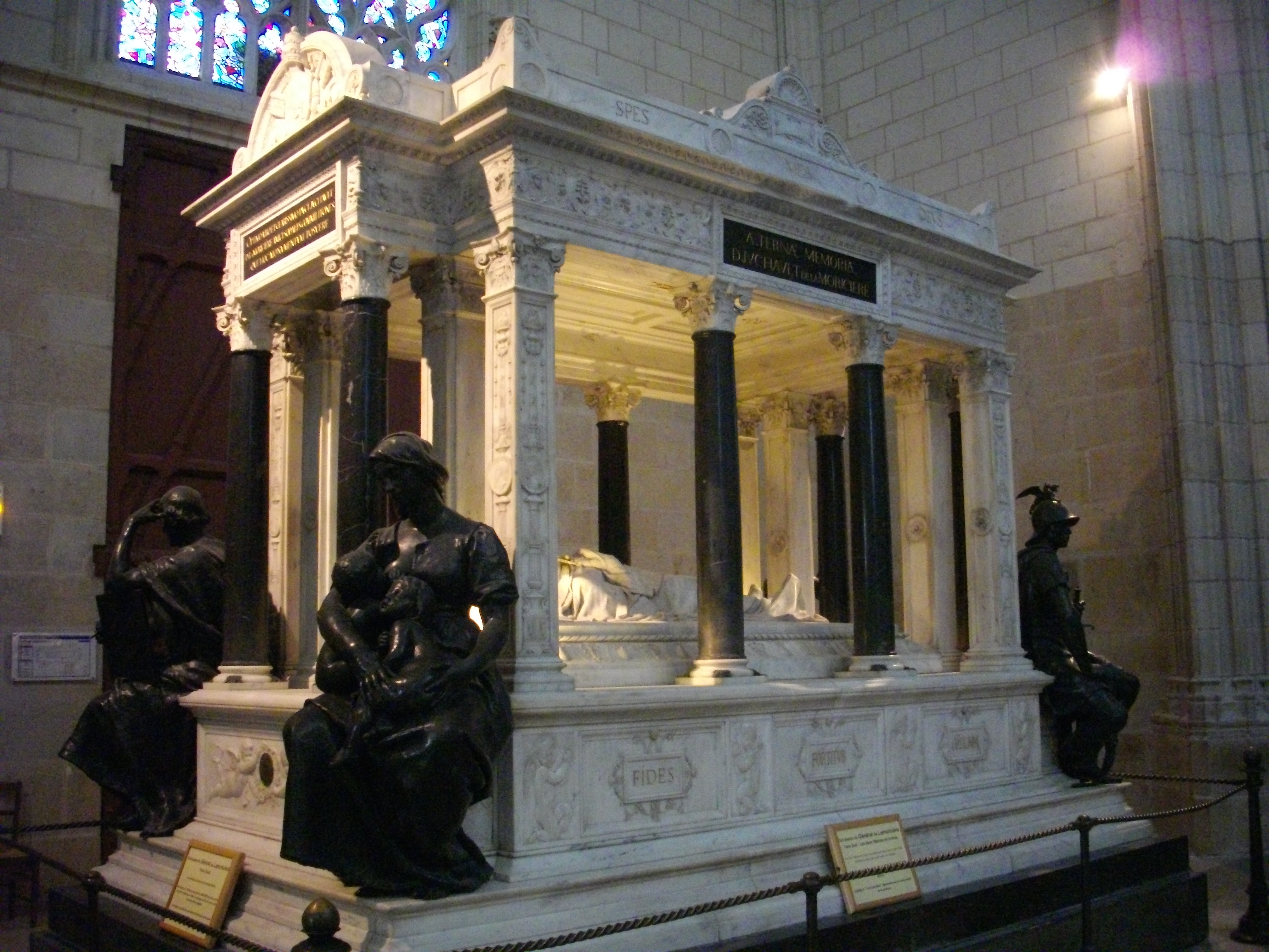 Interior of Saints Peter and Paul cathedral of Nantes (Loire-Atlantique, France), Lamoricière cenotaph .